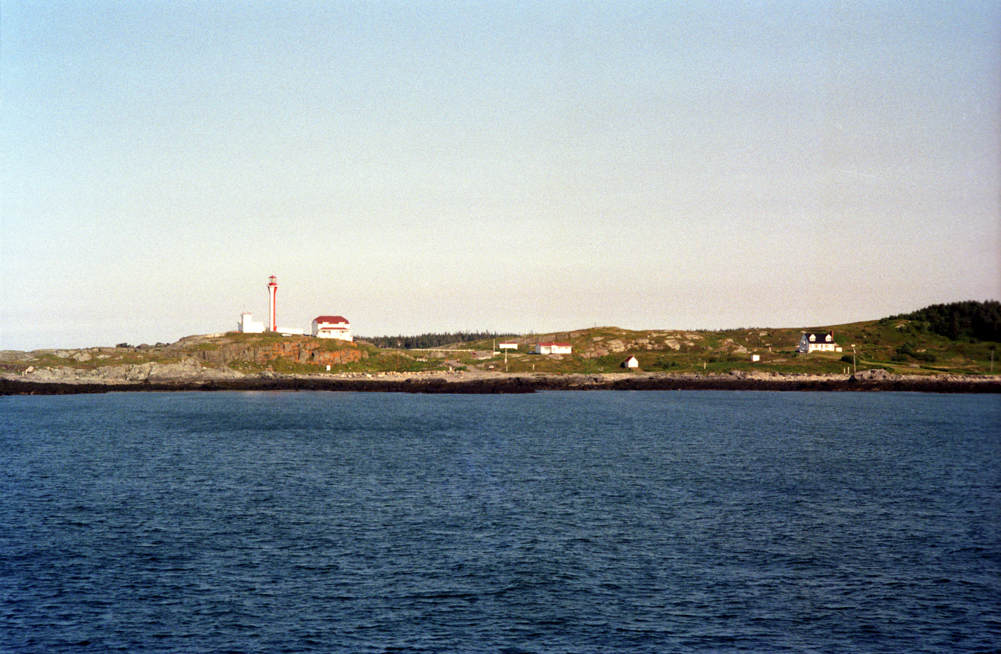 A view of the Cape Forchu Lighthouse from a ferry.